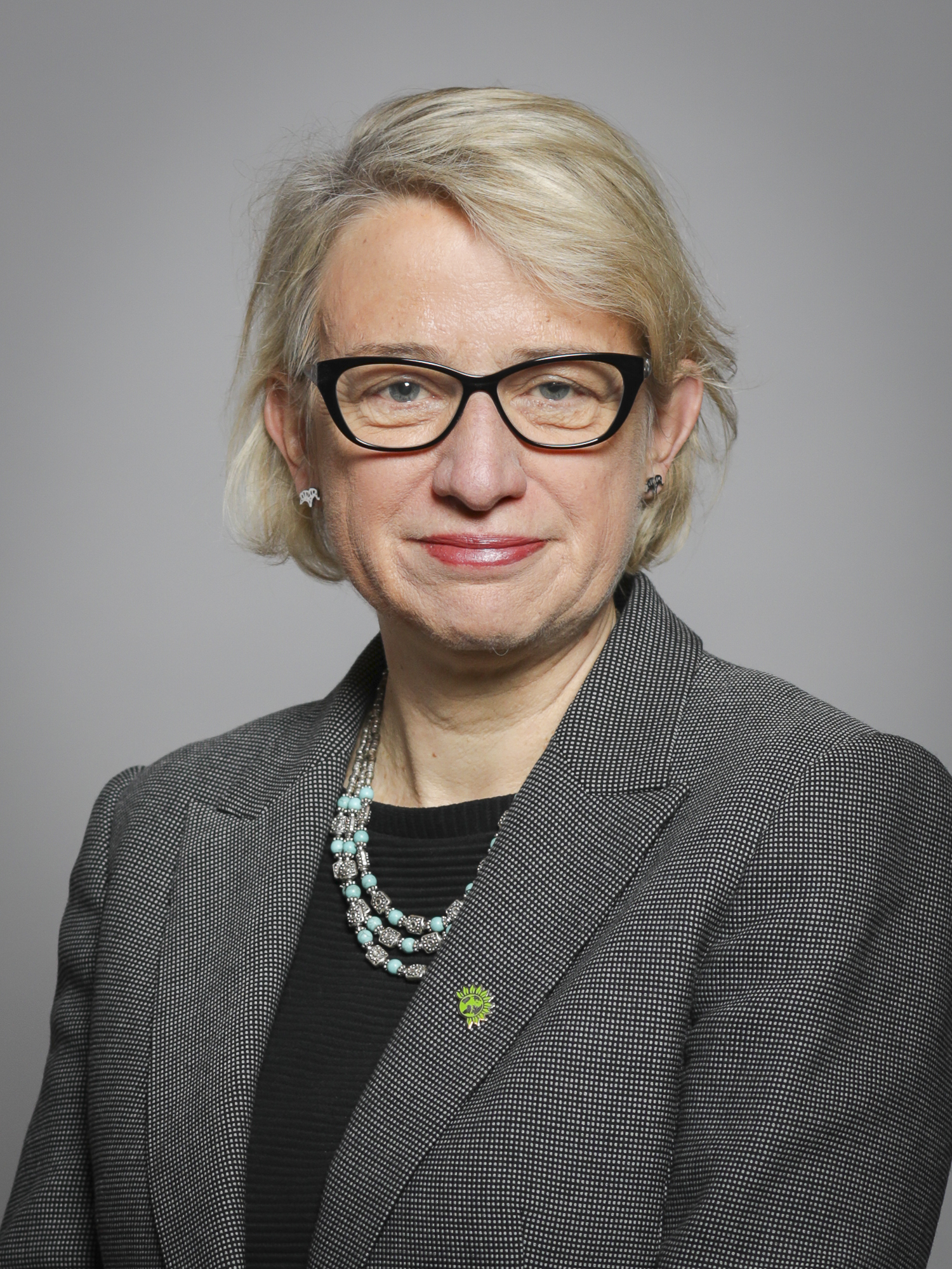 Official portrait of Baroness Bennett of Manor Castle from 2019